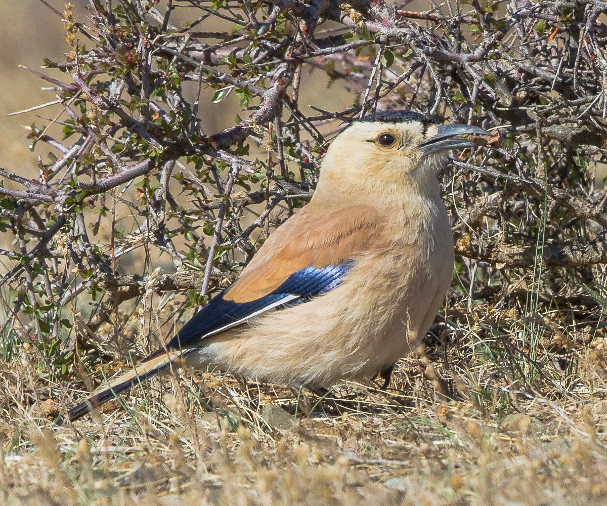 Resident breeder and rare species in Mongolia. It nests on Almond bushes, Yellow Beancaper, Saxaul and Elm trees in Gobi Desert - Ts. Purevsuren. Birds of Khanbogd, 2013, UB